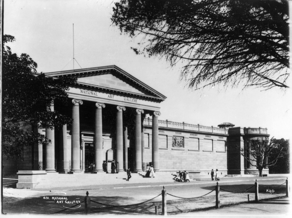 'Sydney City' Pictures from The Powerhouse Museum